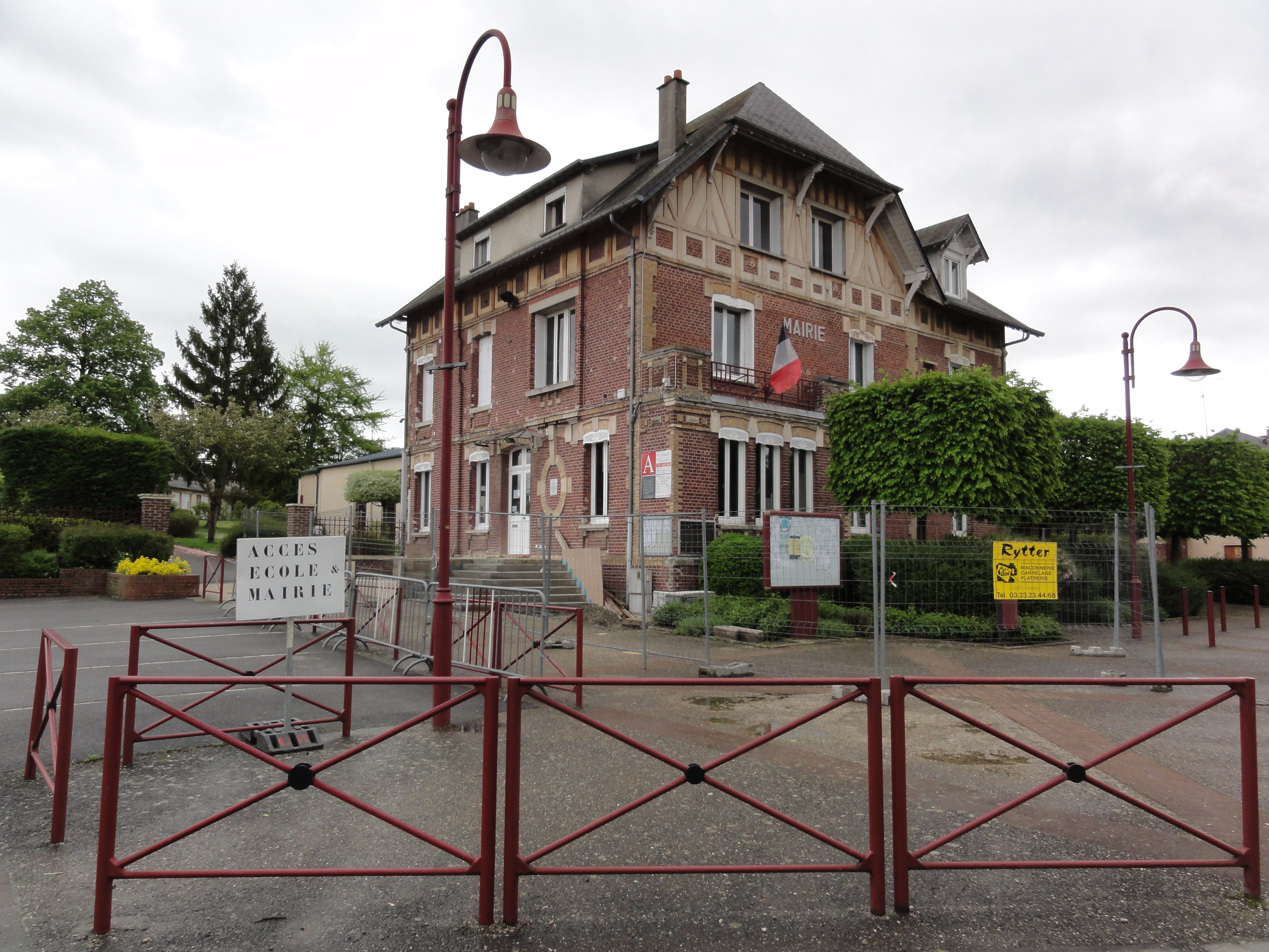 Charmes (Aisne) mairie